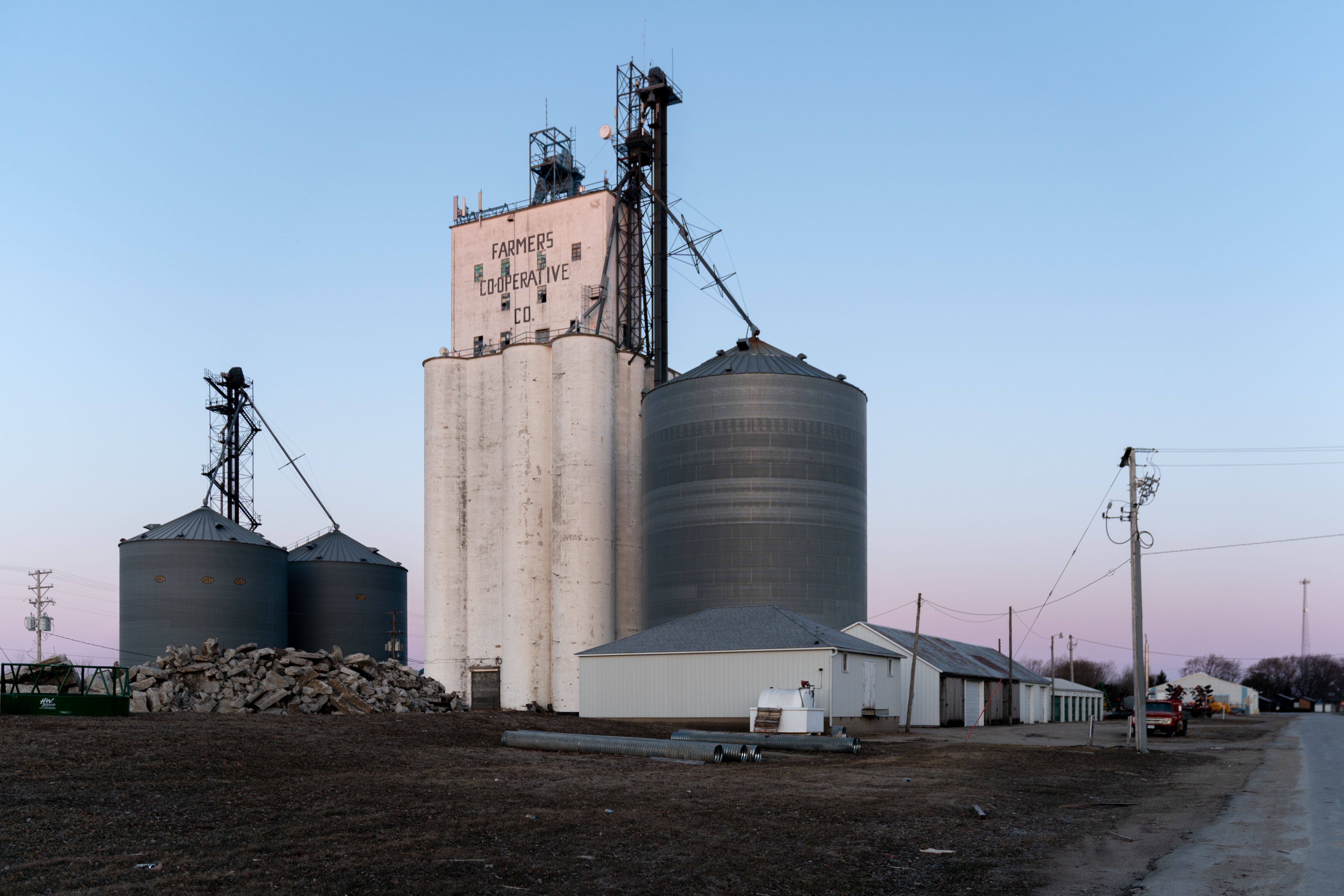 Farmers Cooperative in Dike, Iowa.